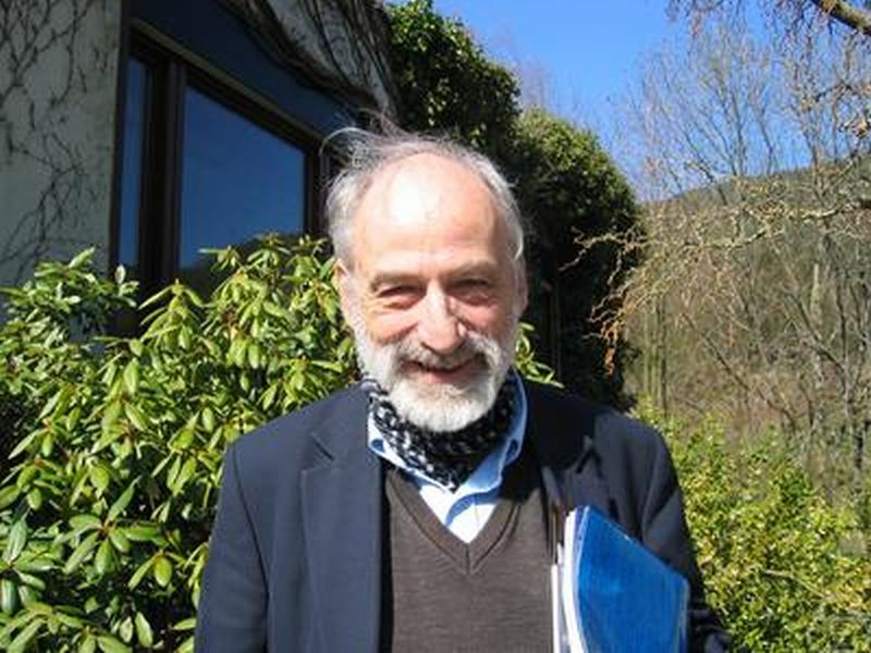 Dale Husemöller, Oberwolfach 2004